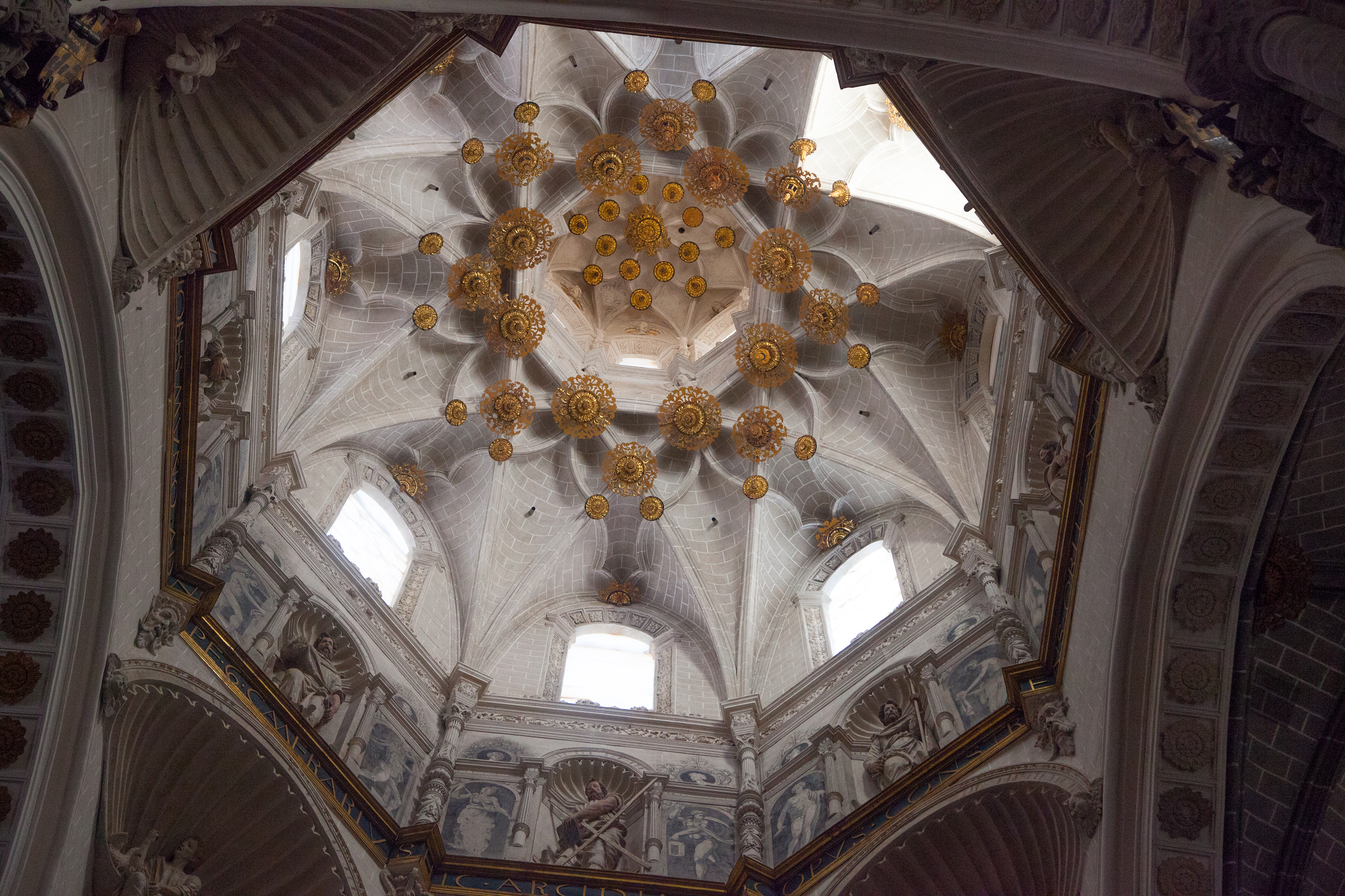 During its restoration numerous archaeological remains worthy to behold found.